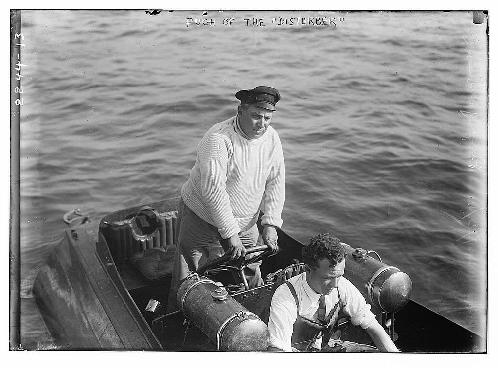 Pugh of the "Disturber" (LOC) Bain News Service,, publisher. James A. Pugh of the Disturber III in 1912 who contested the awarding of the Wrigley Trophy. [between ca. 1910 and ca. 1915] 1 negative : glass ; 5 x 7 in. or smaller. Notes: Title from unverified data provided by the Bain News Service on the negatives or caption cards. Photo shows James A. Pugh in his motorboat Disturber III. (Source: Flickr Commons project, 2008) Forms part of: George Grantham Bain Collection (Library of Congress). Format: Glass negatives. Repository: Library of Congress, Prints and Photographs Division, Washington, D.C. 20540 USA, General information about the Bain Collection is available at Persistent URL: Call Number: LC-B2- 2244-13